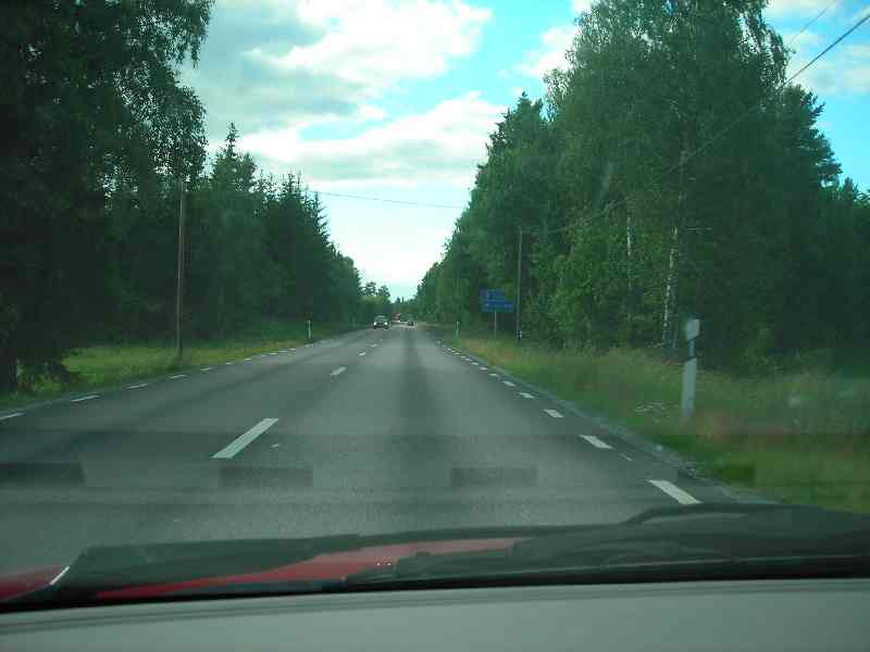 Road 70 in Sweden near Sala. The road sign says FASTBO (I compared my original hi-res image)